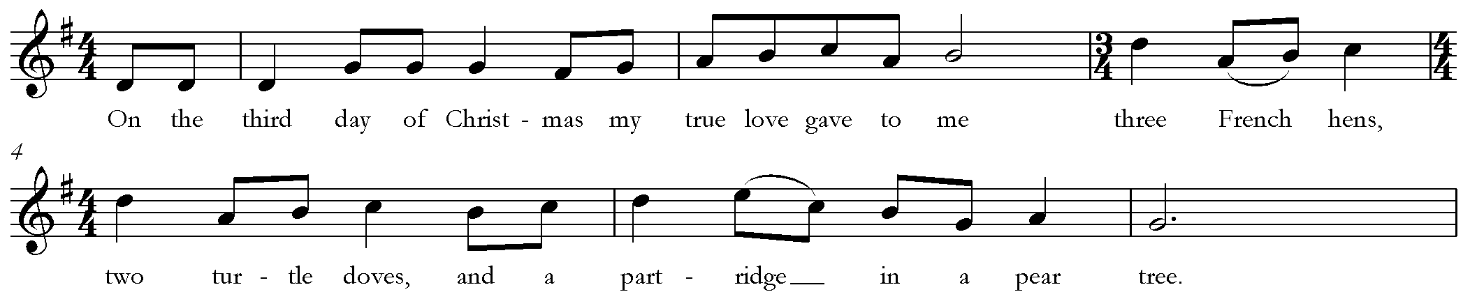 Second verse of "The Twelve Days of Christmas". The Song was published in 1780, so it is public domain.